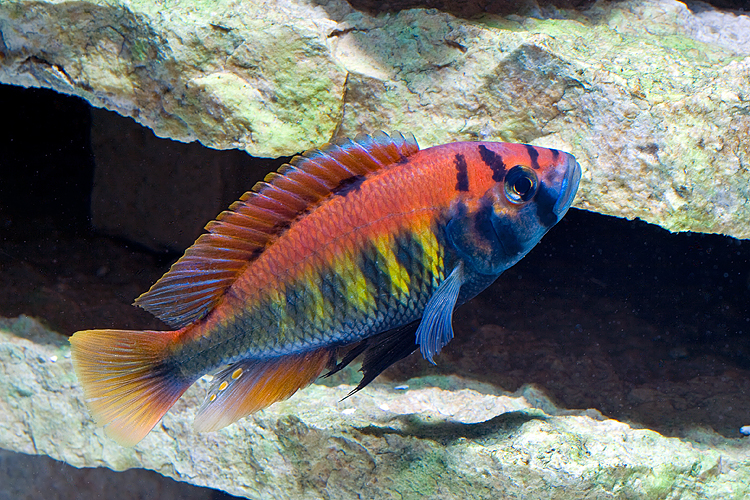 Pundamilia (Haplochromis) nyererei "Mwanza Gulf" (Witte-Maas & Witte, 1985) subdominant male, photo taken in captivity. F1 stock derived from 'Old World Exotics' (aka Laif DeMason) who imported some wild caught Victorian cichlids in 2007. 'The exact location was unknown so they were given the somewhat generic location of Mwanza Gulf.'